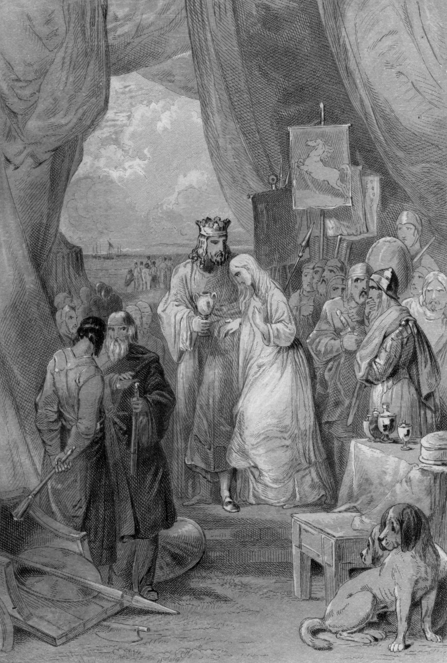 Vortigern and Rowena by William Harvey (1796-1866).